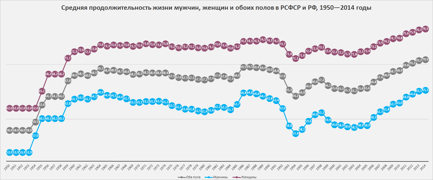 Russian male and female life expectancy from 1950-2008. Data source:[1][2]